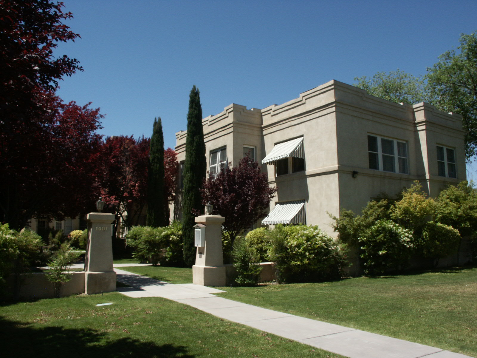 The Castle Apartments in Albuquerque, New Mexico, USA, prior to being destroyed by fire in 2009